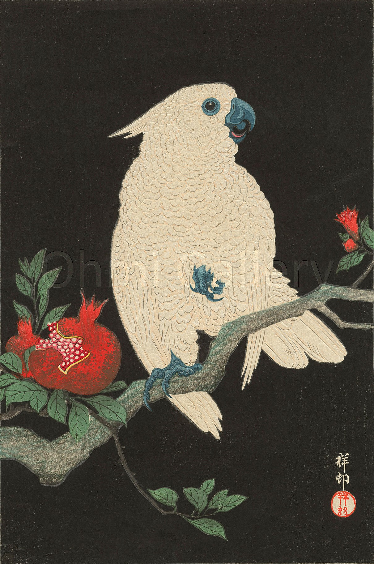 Ohara Shoson bird